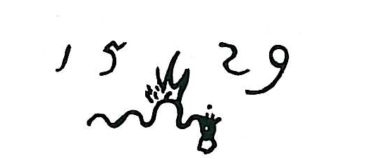 autograph of the painter Lucas Cranach the Elder